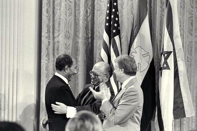 On the Yom Kippur of October 6, 1973, Egypt and Syria launched a coordinated surprise attack on Israel. The Yom Kippur War was launched on the holiest day on the Jewish calendar: The Day of Atonement. Pictured here is Egyptian President Anwar Sadat (left), Israeli Prime Minister Menachem Begin (center) and U.S. President Jimmy Carter (right) after Israel and Egypt signed two agreements--the culmination of twelve days of secret negotiations at Camp David. The negotiations eventually led to signing of the Middle East peace accord in March 1979. Photo: Israeli archives. The Israel Defense Forces Facebook page The Israel Defense Forces blog Follow us on Twitter